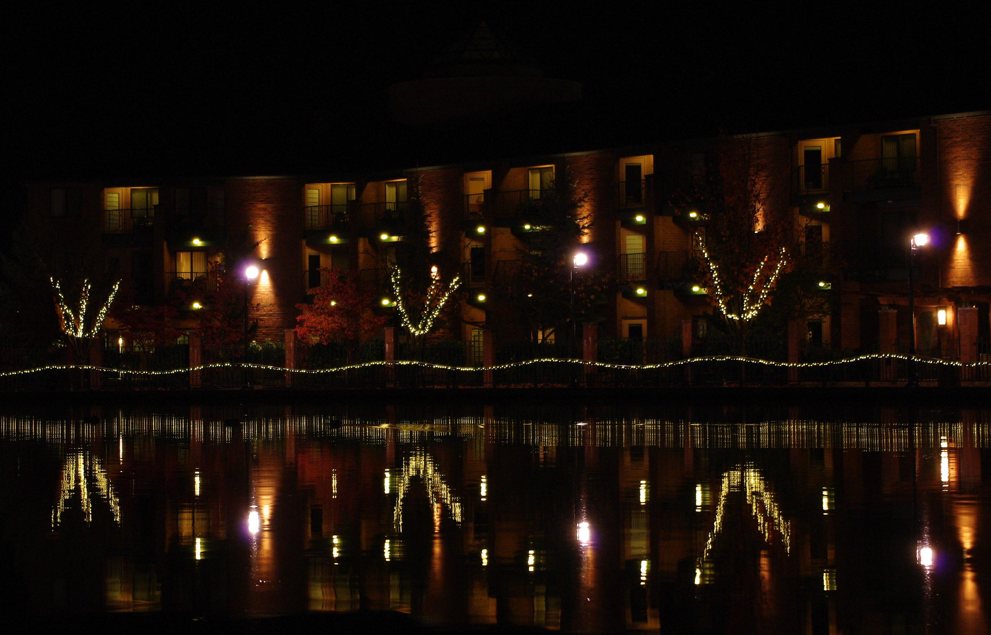 Tualatin, Oregon, USA